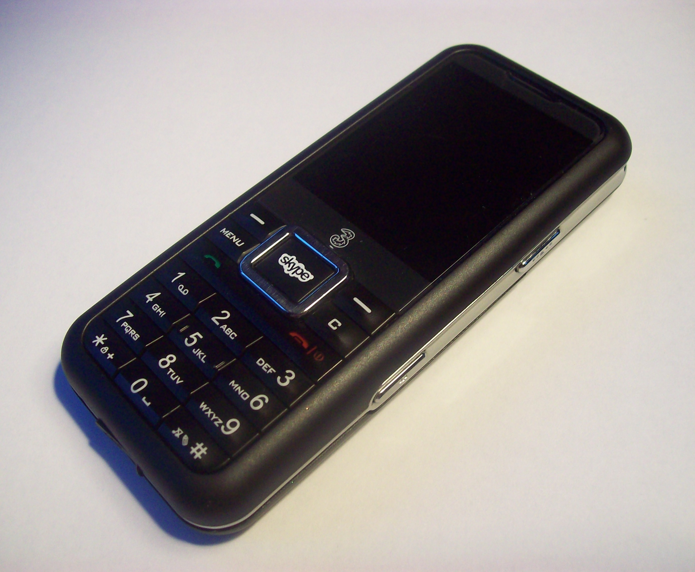 Photo of Amoi Skypephone S1